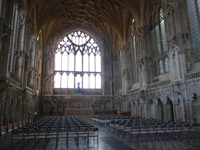 Ely Cathedral The Lady Chapel